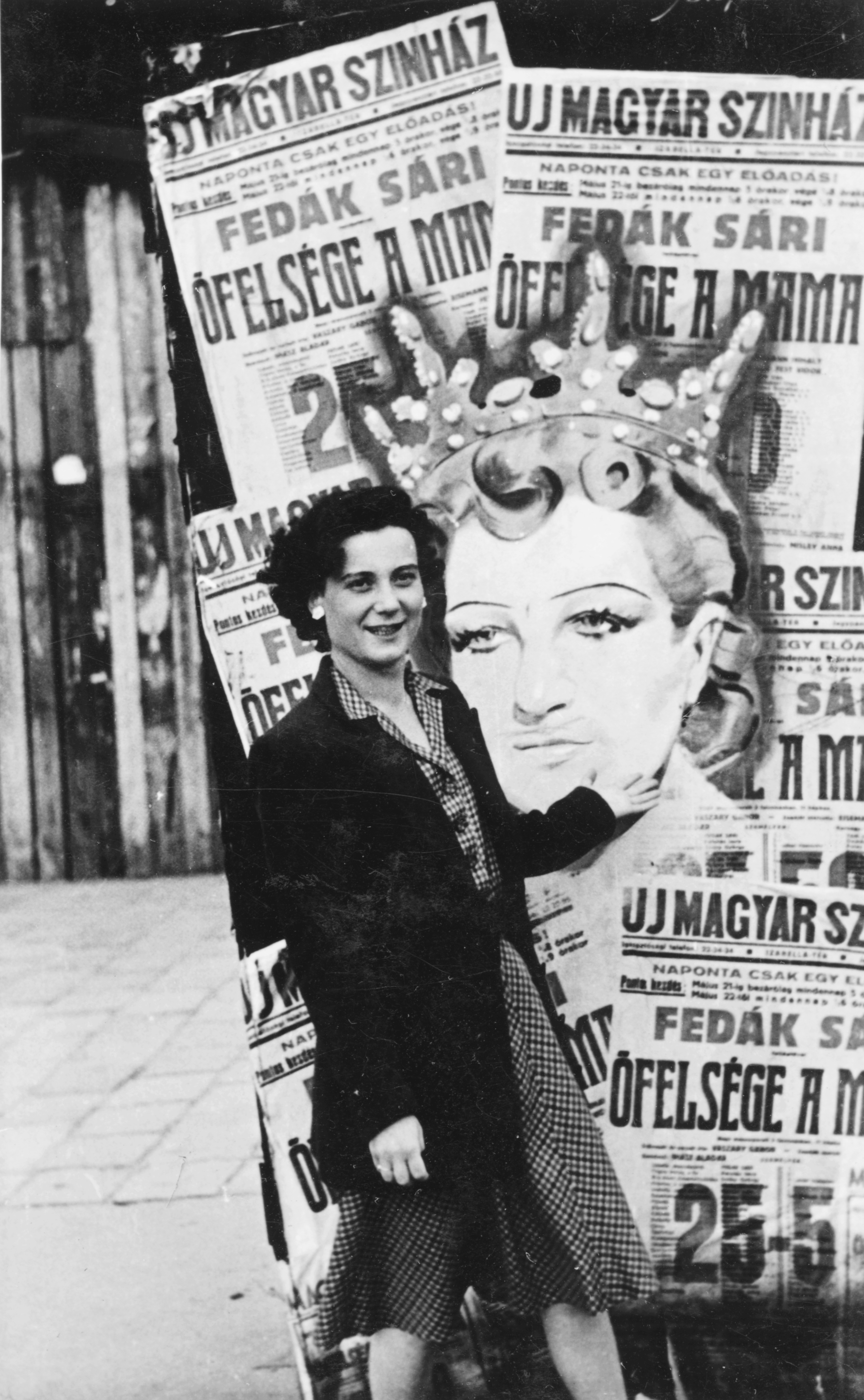 Tags: ad pillar, theater, Sári Fedák-portrayal, poster, lady